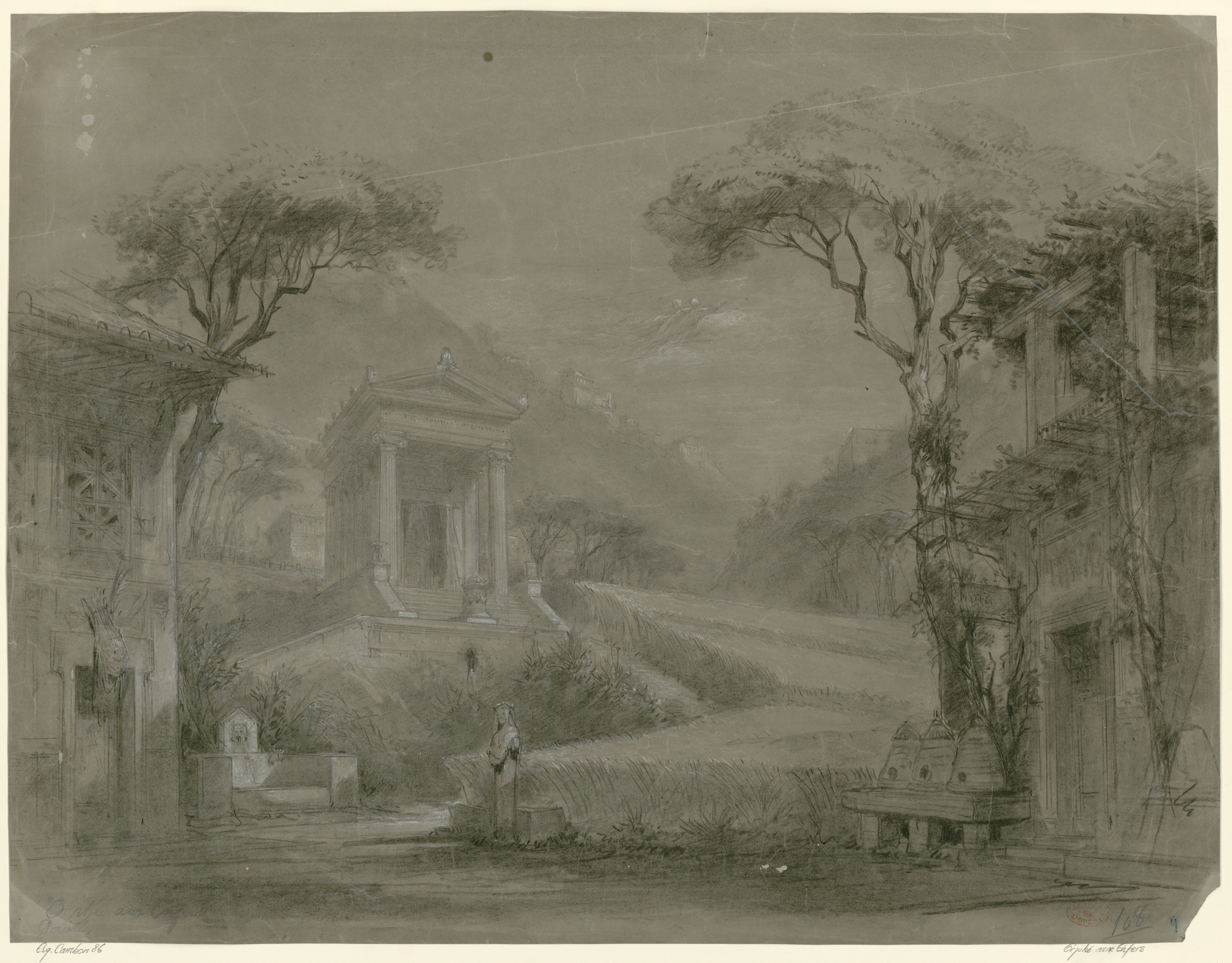 Set design for the 1874 revised version of Jacques Offenbach's Orphée aux Enfers (Orpheus in the Underworld) at the Théâtre de la Gaîté, Paris, 7 February 1874. Pastel with white highlights on green-tinted paper, 490 x 640 mm